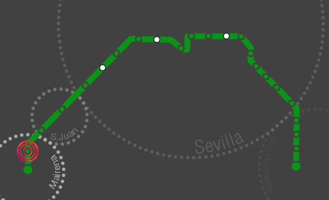 Station